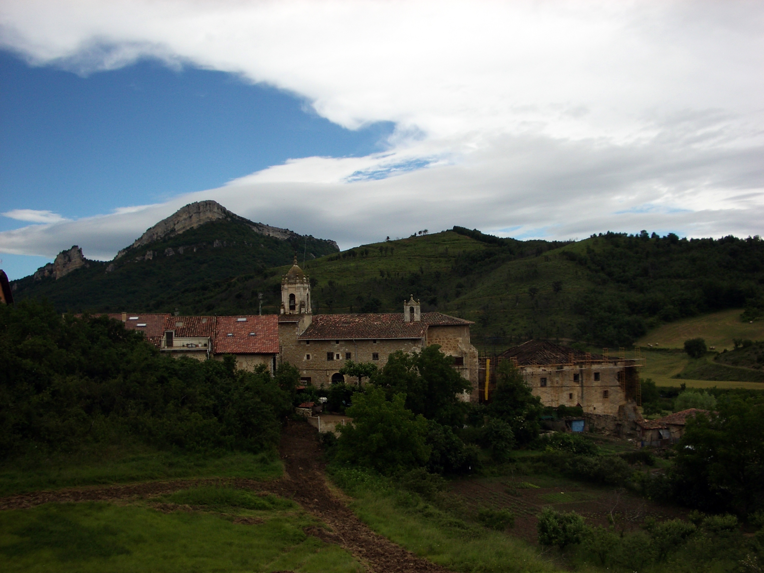 A view of Bujanda, Campezo (Spain)